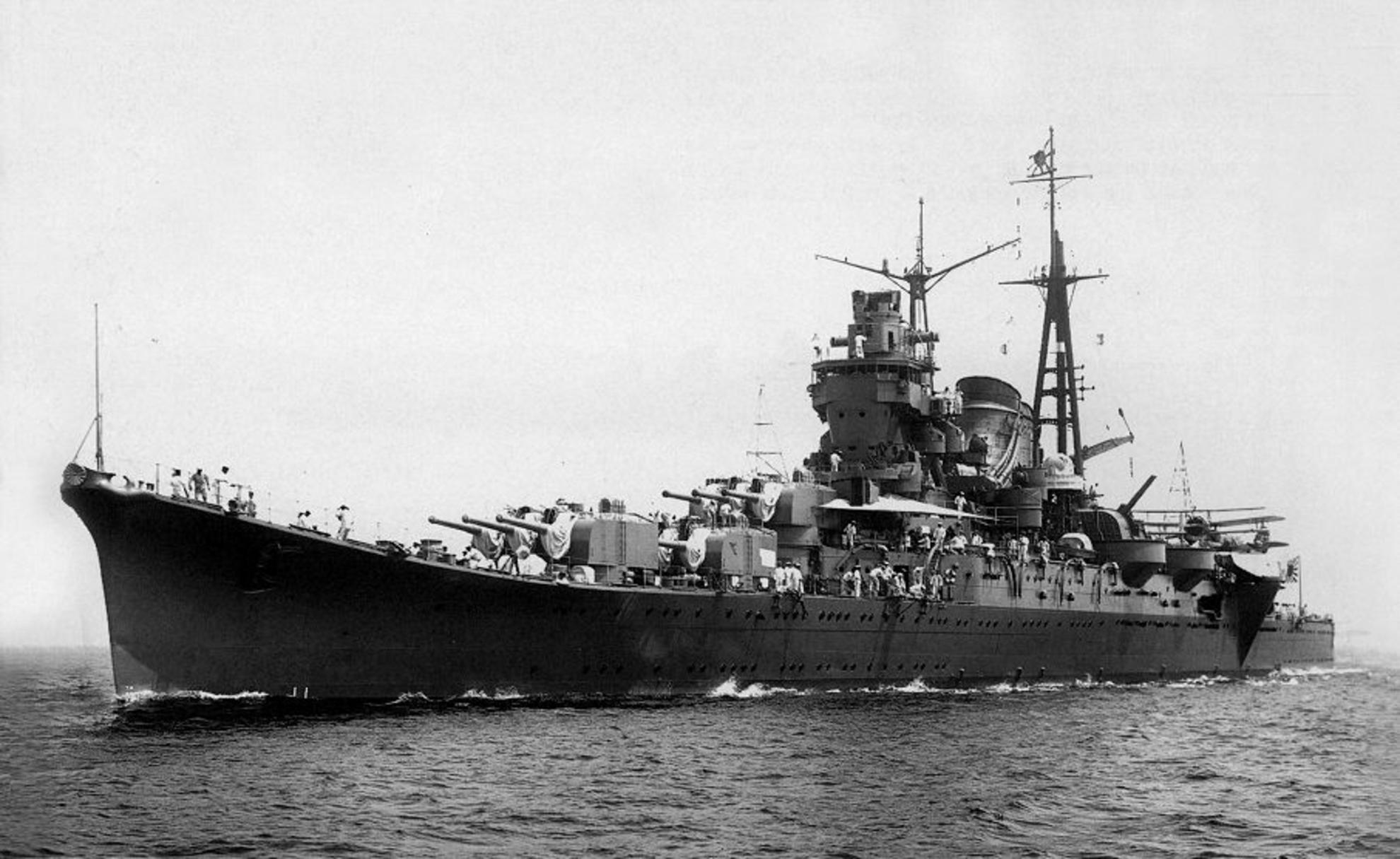 Japanese cruiser Mogami after the comission, july 1935.